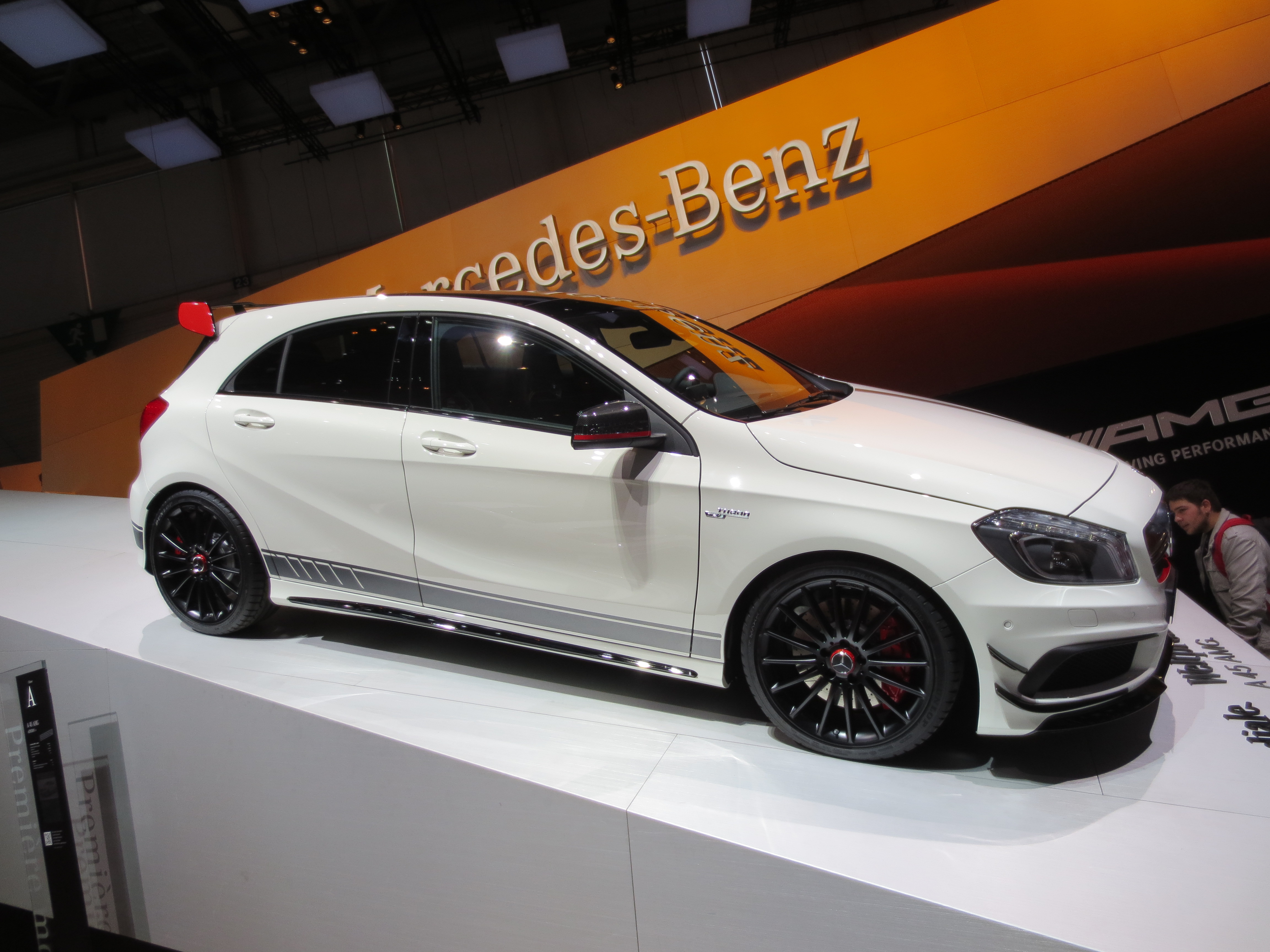 Subject: Mercedes-Benz A45 AMG W176 Author: Luc106 Date: April 12th, 2013 Event: Salon de l'Automobile 2013 Place/Country: Geneva Palexpo, Grand-Saconnex (Switzerland) I release all rights in the public domain.